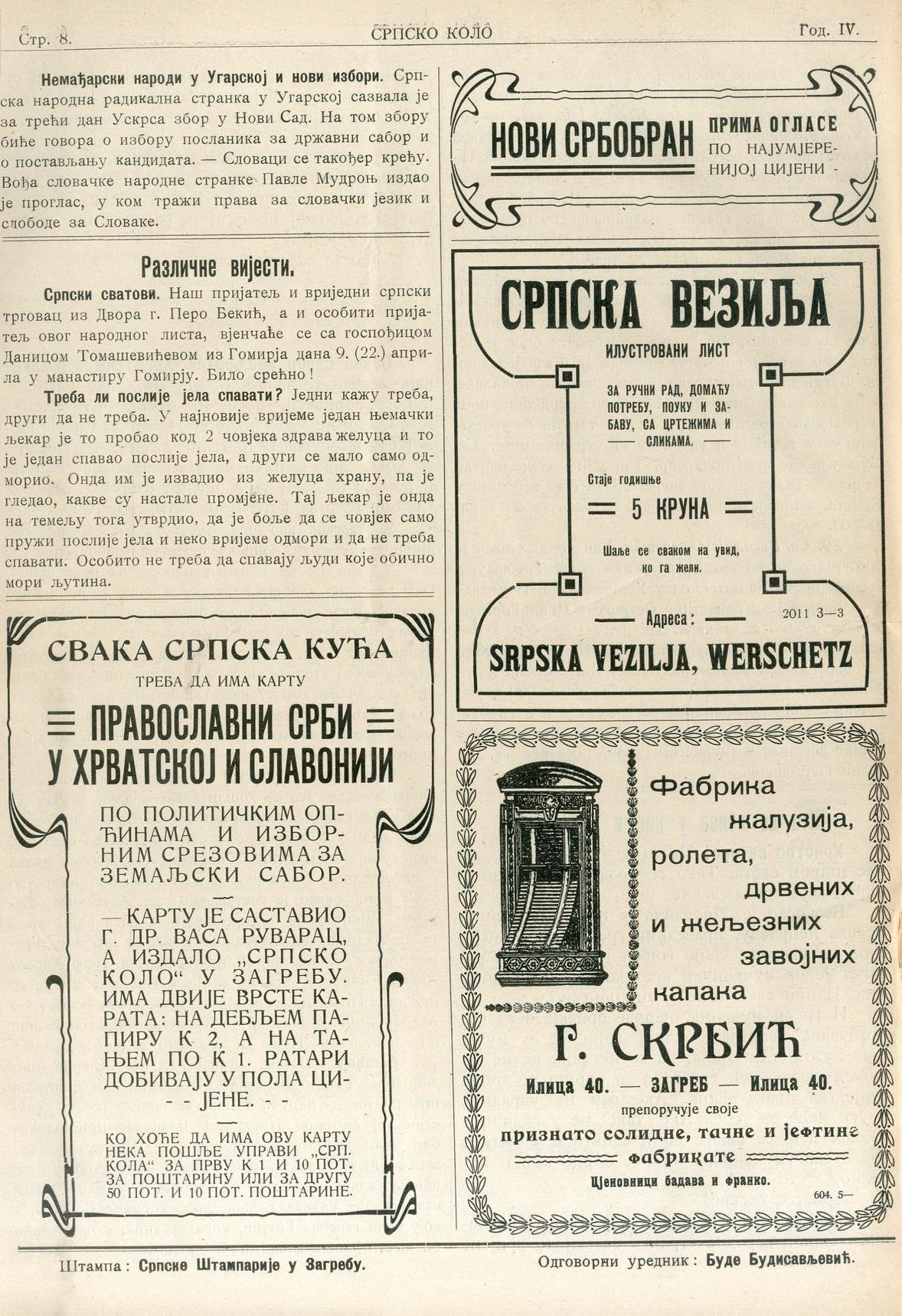 Journal Srpsko kolo, 30. March, page 8, 1906, advertising of Serbian journal Srpska vezilja